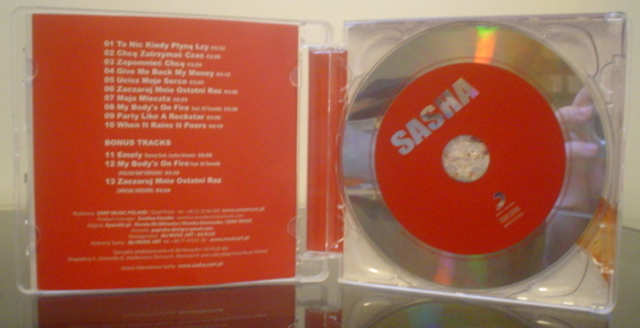 Disc of Sasha Strunin